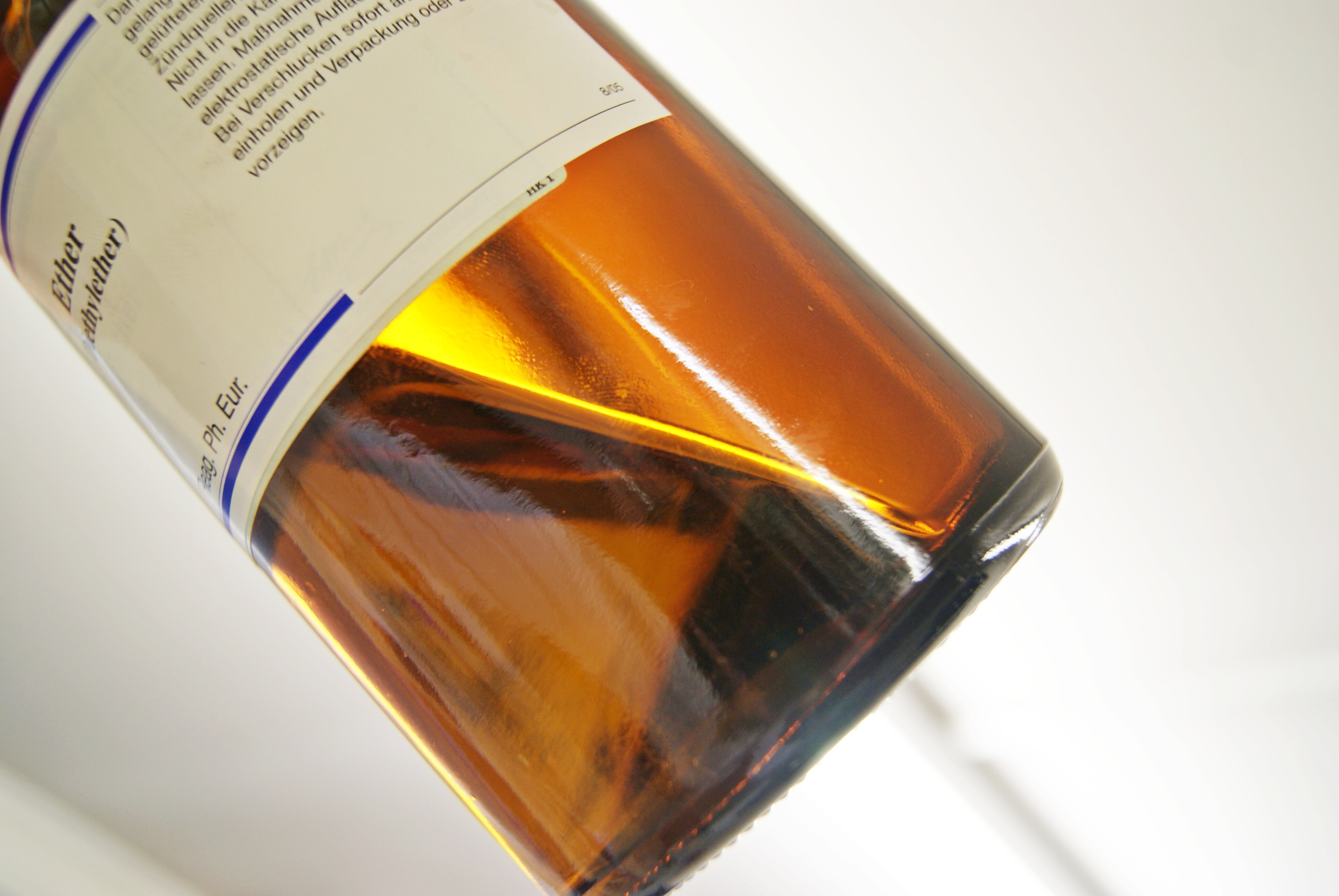 Diethyl ether